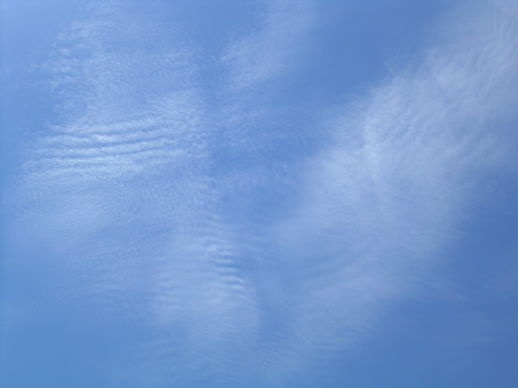 Funny Cirrocumulus "undulated" in various directions